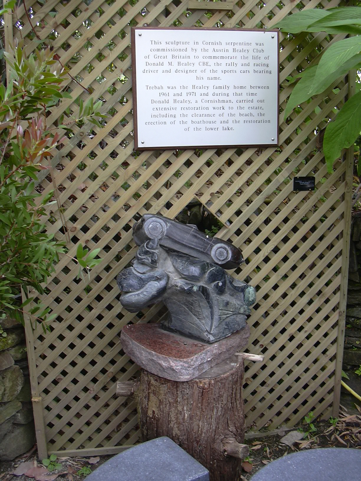 Memorial to Donald Healey at Trebah Garden.